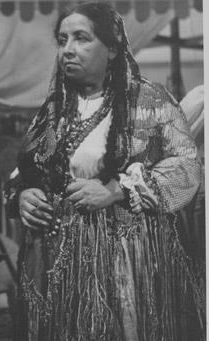 Leticia Scuri-actriz